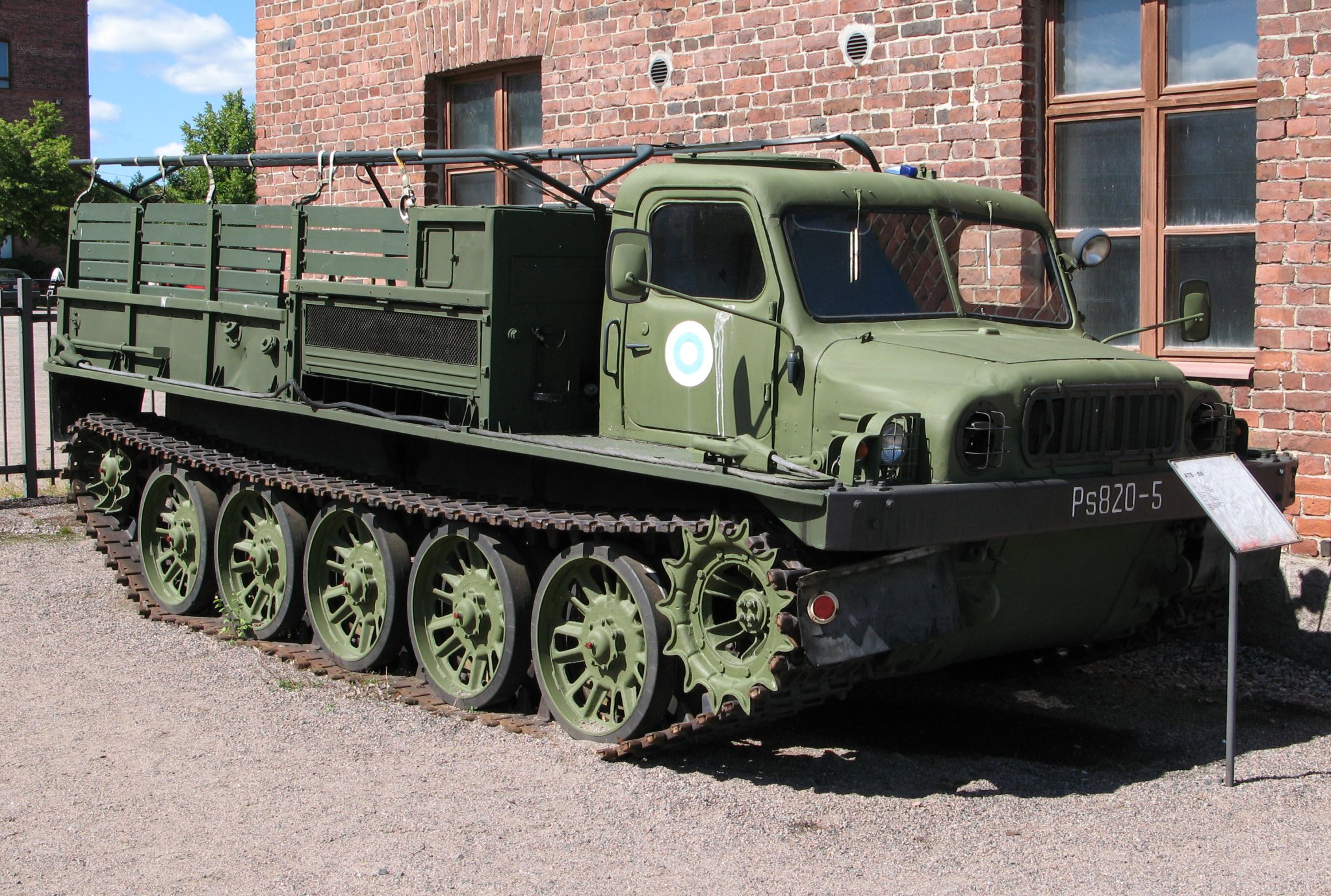 Finnish Artillery museum in Hämeenlinna, Finland